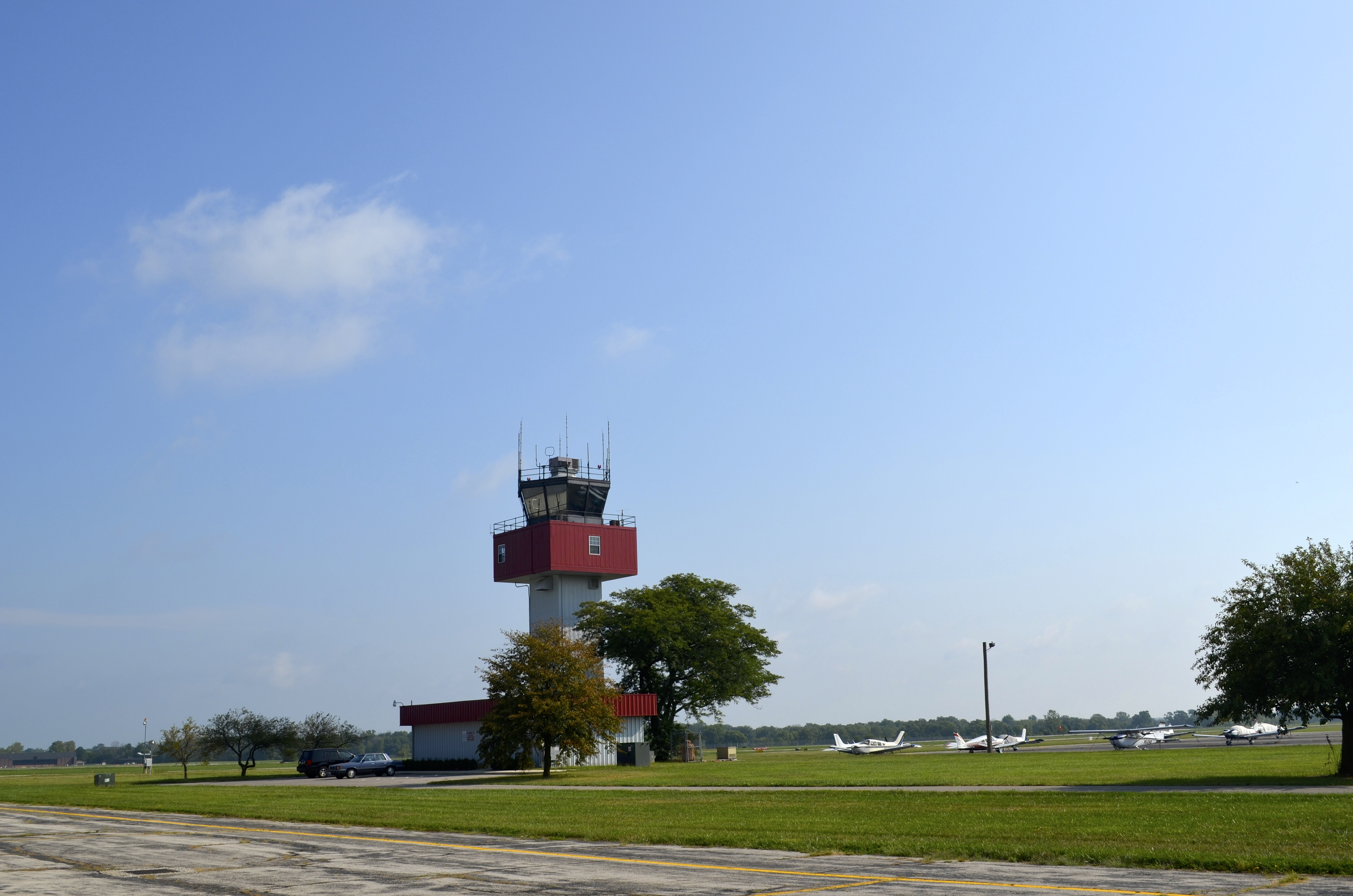 Ohio State University Airport Control Tower